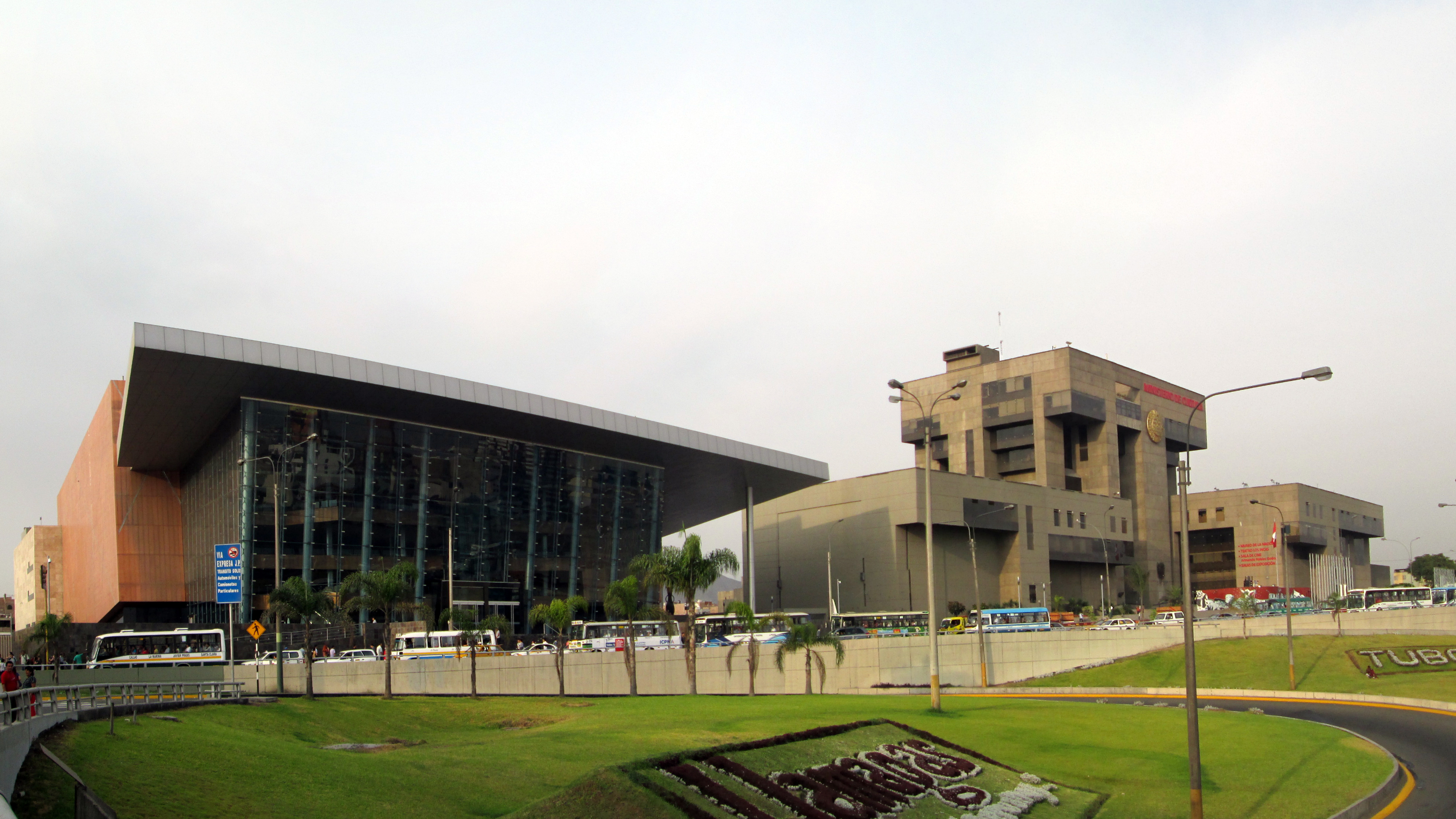 Peru's Grand National Theatre building next to the National Museum and Culture Ministry in San Borja District, Lima.